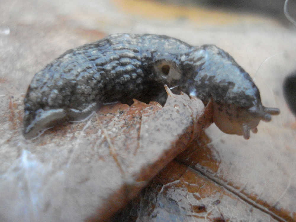 Grey garden slug, Deroceras reticulatum, found eating Coreopsis in garden. Pneumostome is open, position of pneumostome on posterior half of mantle and short posterior keel can be seen. DSC03683